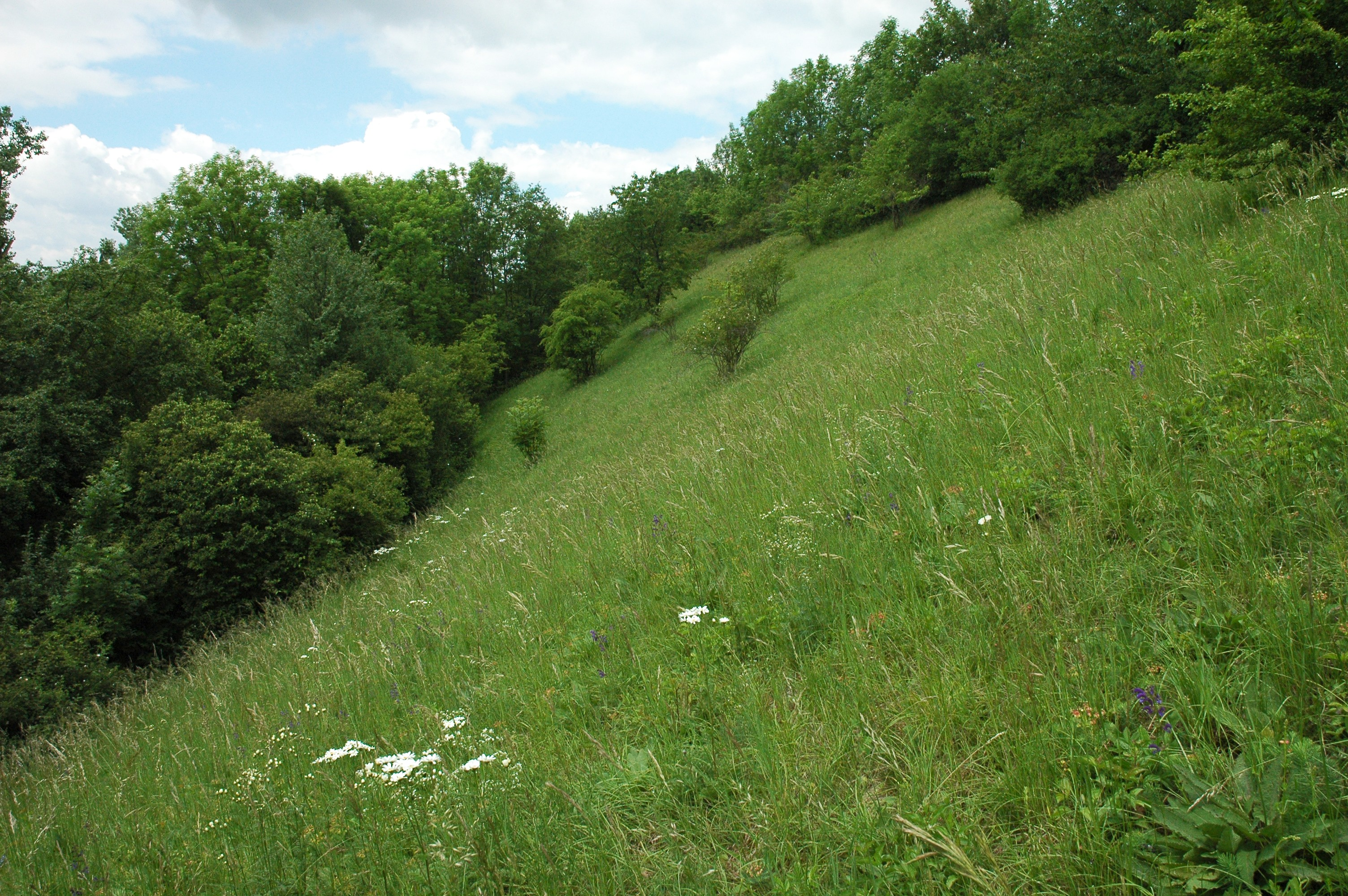 Natural monument Chrašická stráň in Chrudim District, Czech Republic